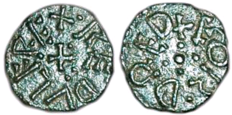 Coin of Rædwulf of Northumbria (844 or 858)